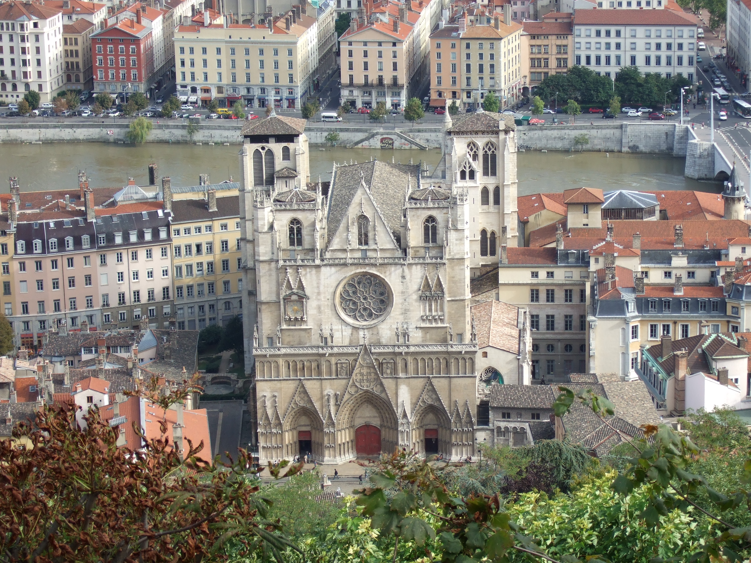 Cathédrale Saint Jean. Photo taken in Lyon France.